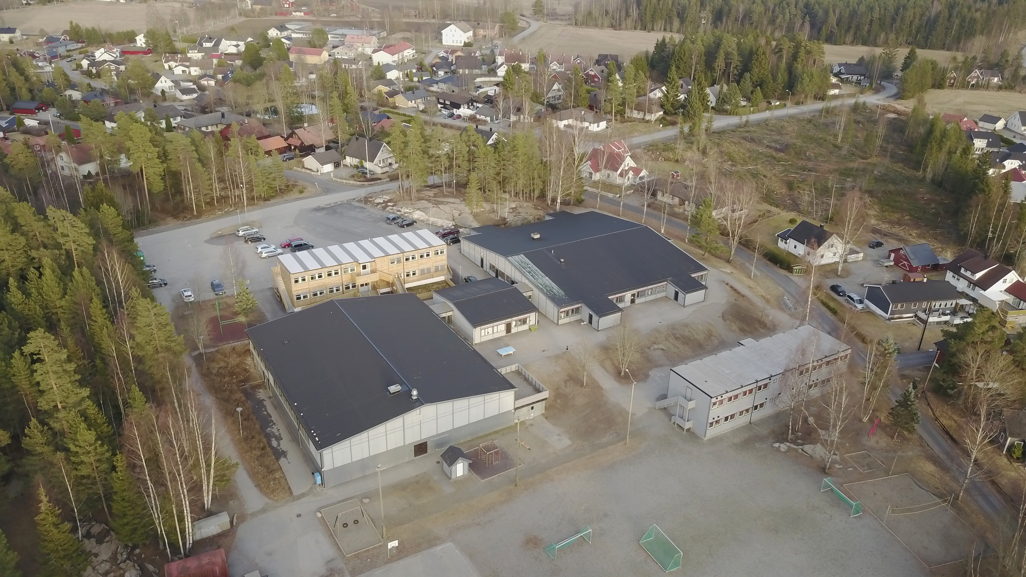 Algarheim school